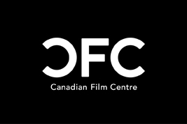 CFC Logo